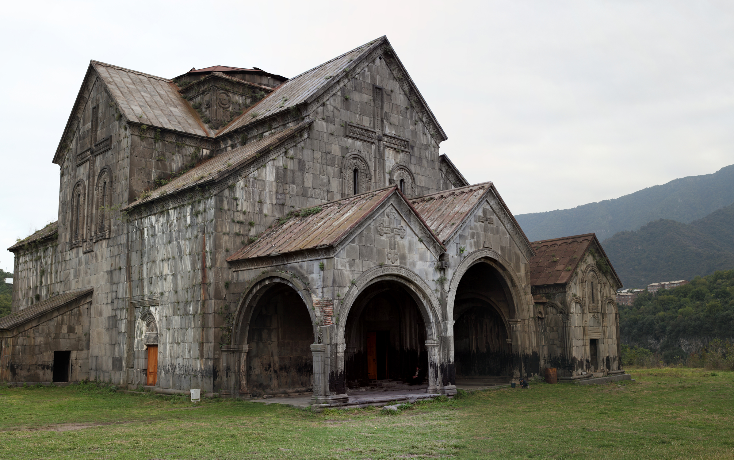 Akhtala monastery